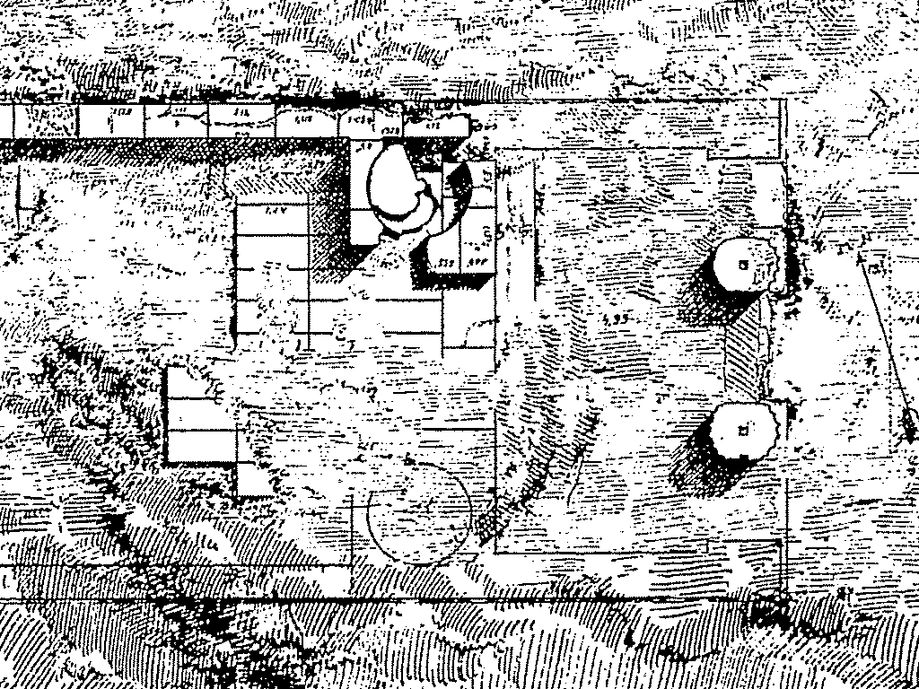 Temple A in Selinunte. Detail: Remains of spiral stair between pronaos and cella